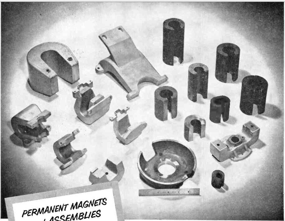 An assortment of Alnico magnets produced by The Arnold Engineering Co. in 1956. These are probably Alnico 5 magnets, and show the large range of shapes manufactured for use in devices such as magnetron tubes and small DC electric motors. Invented during World War 2, Alnico 5 was at that time the most powerful magnet in the world. It's development created a new generation of compact permanent magnet motors and loudspeakers, devices which before the war had used DC electromagnets. Alterations to image: cropped out surrounding ad copy.